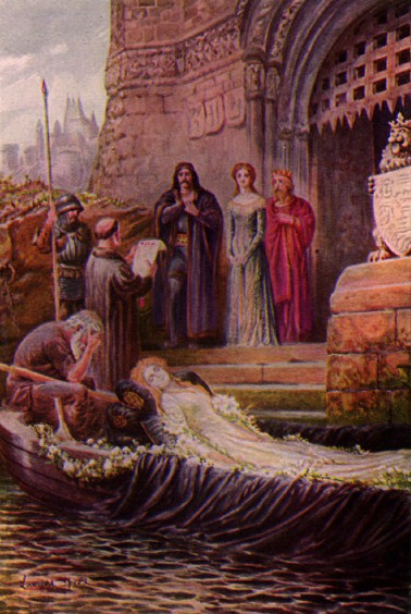 Elaine in the Barge